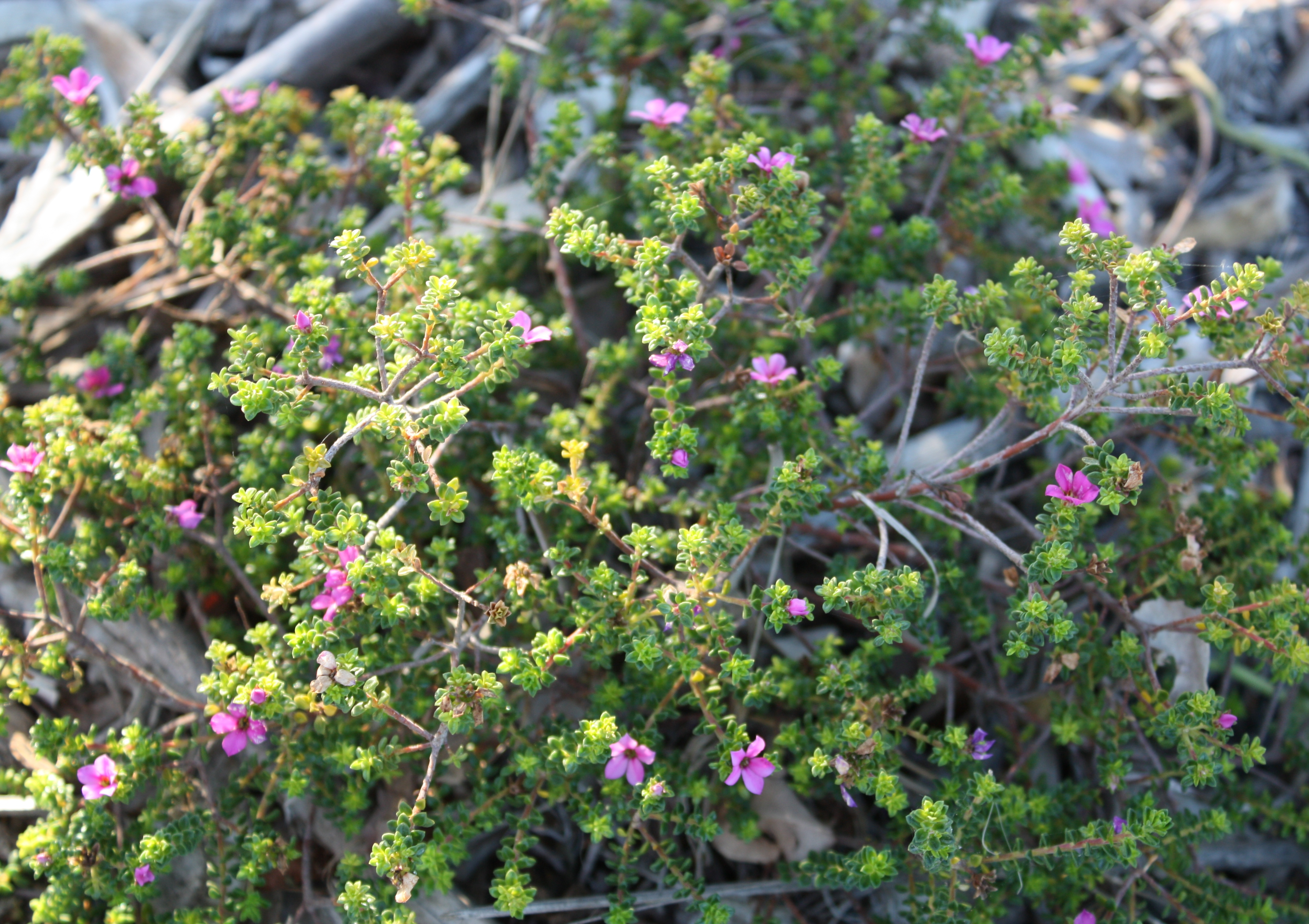 Small aromatic buchu herb. Acmadenia heterophylla. Fynbos plant. All-year-flowering. Alkaline soils. South Africa.